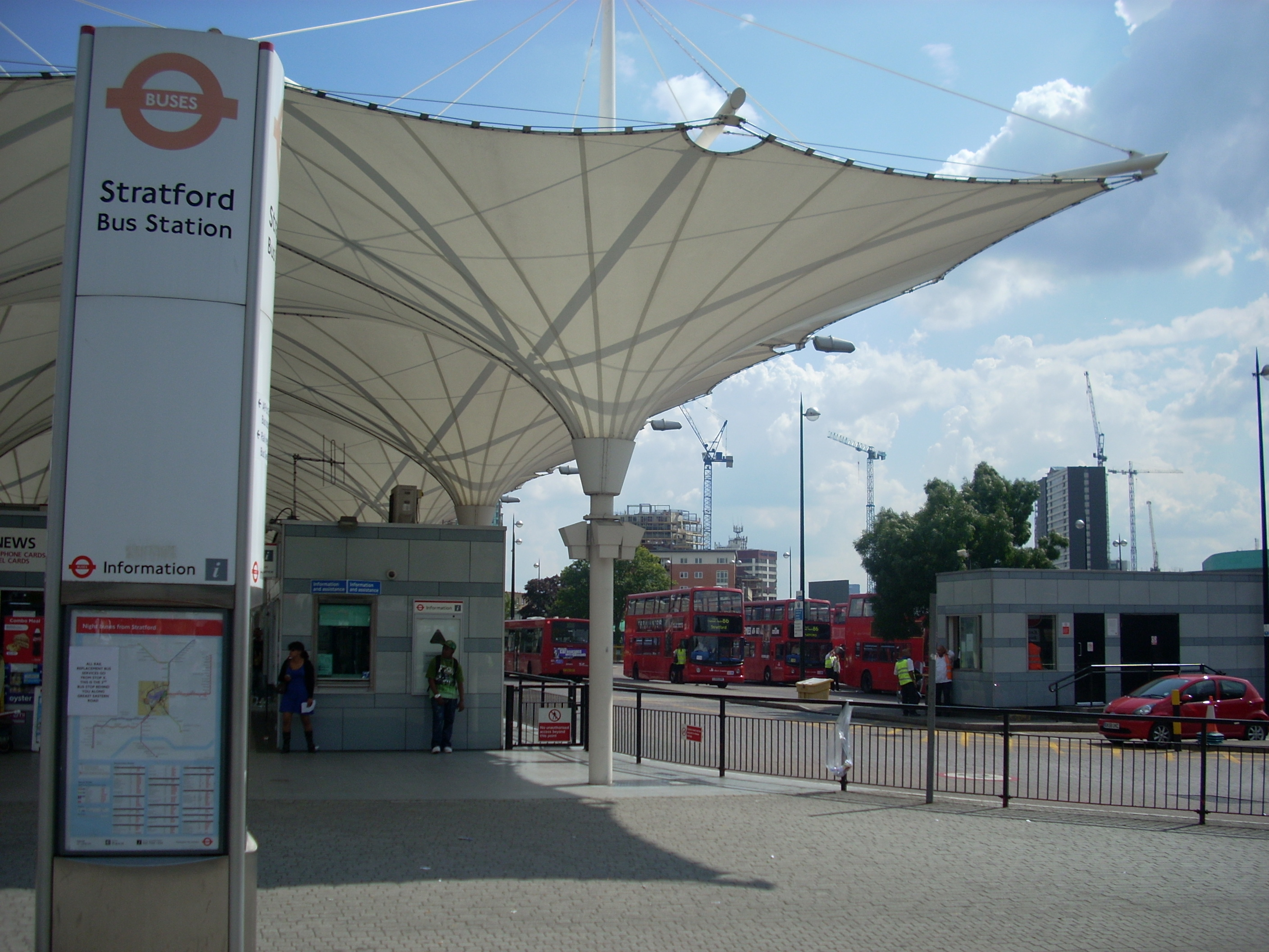 Stratford Bus Station - June 2009